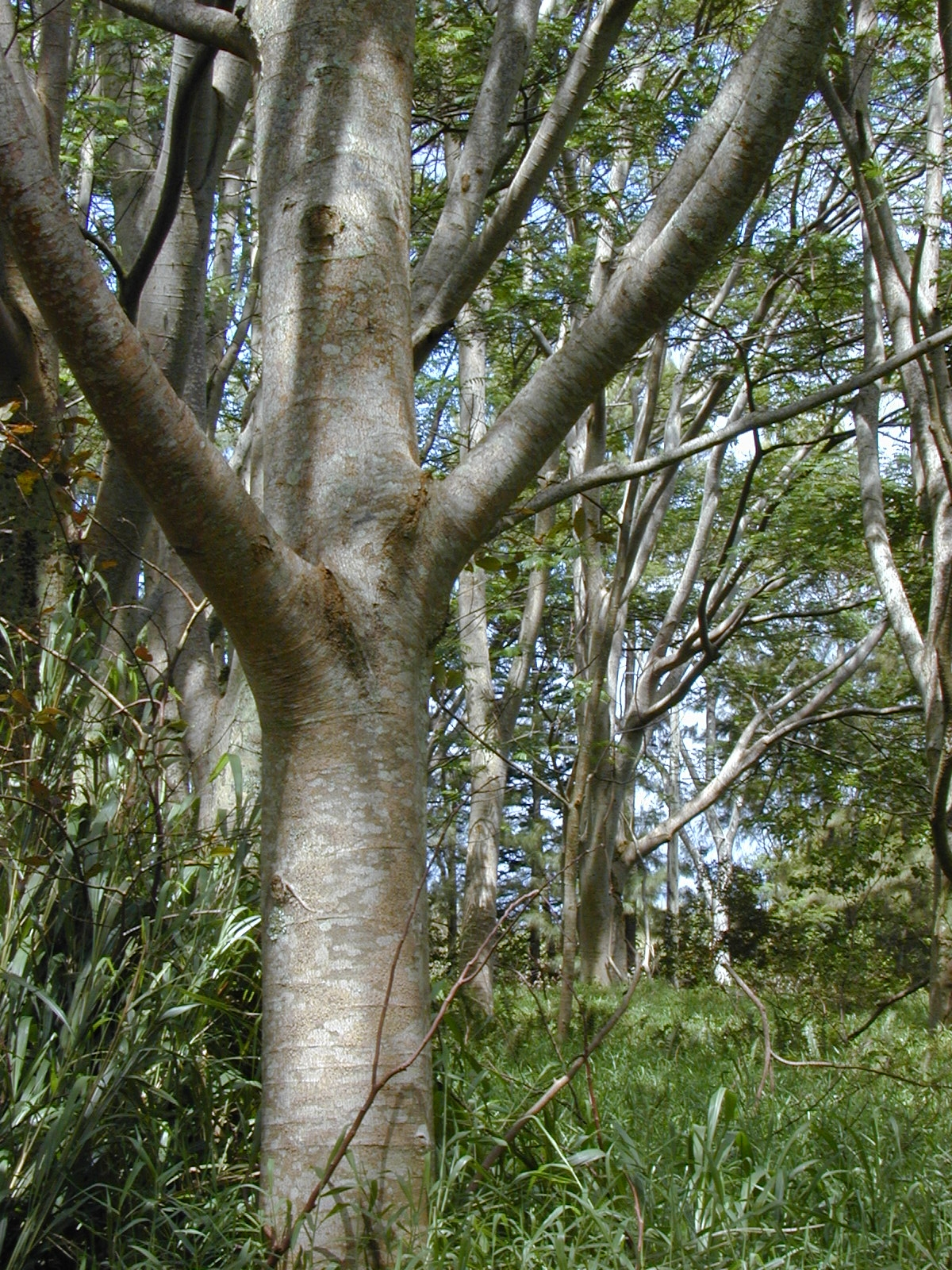 Falcataria moluccana (bark). Location: Maui, Haiku